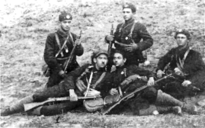 IMARO revolutionary/ies